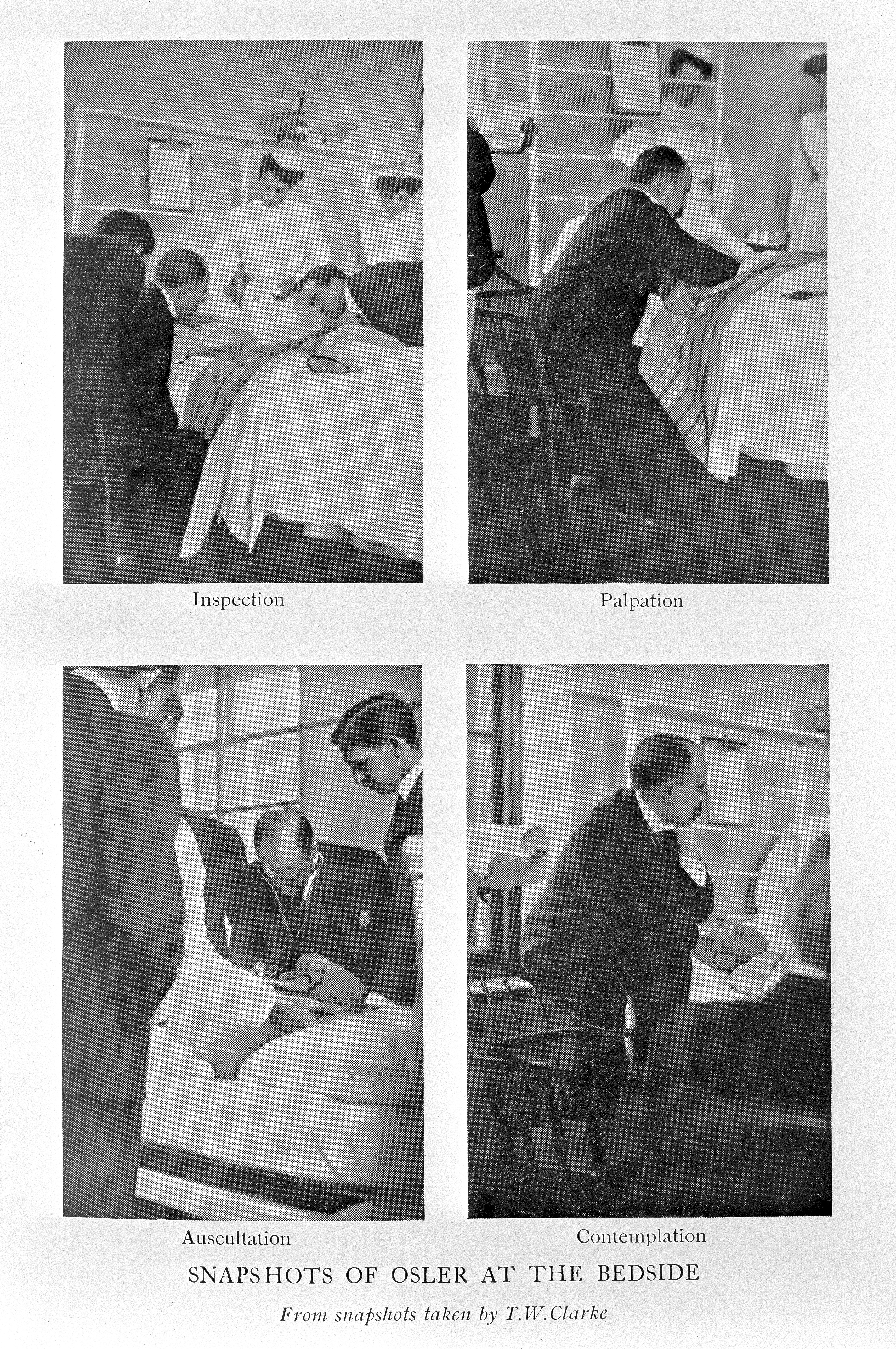 William Odler at the bedside of patients. General Collections Keywords: William Osler